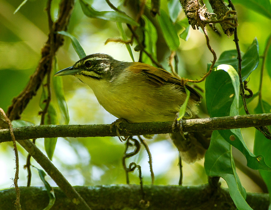 Moustached wren at Guapiaçu Ecological Reserve - RJ - Brazil